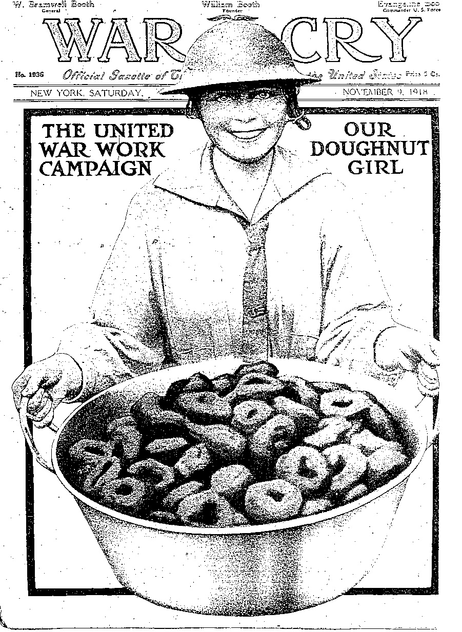 Cover of the Salvation Army Magazine "War Cry", November 9, 1918, depicting "Doughnut Dollies"- American volunteers serving in France